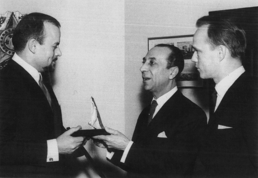 Photograph of the Finnish designer and sculptor Björn Weckström (left) receiving a jewelry design prize (Grand Prix of Rio de Janeiro 400 years celebration) from the Braziliam ambassador Vincente Paolo Gatti (middle). To the right, goldsmith Pekka Anttila.